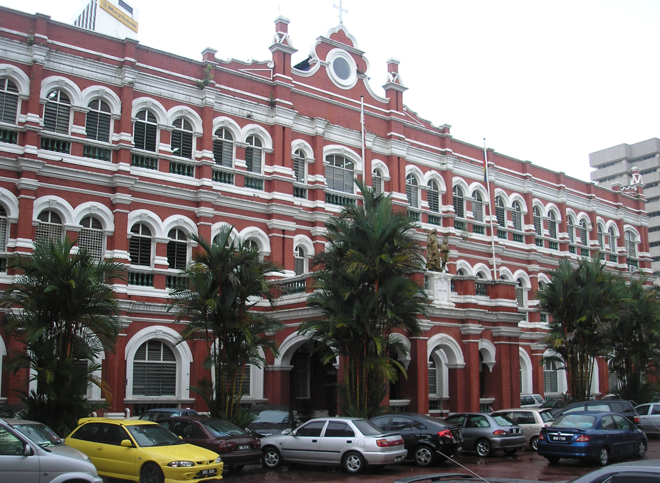 The Secondary Boy's branch of St John's Institution at Jalan Bukit Nanas (Bukit Nanas Road), in Bukit Nanas, Golden Triangle, Kuala Lumpur, Malaysia, as seen towards the southeast.